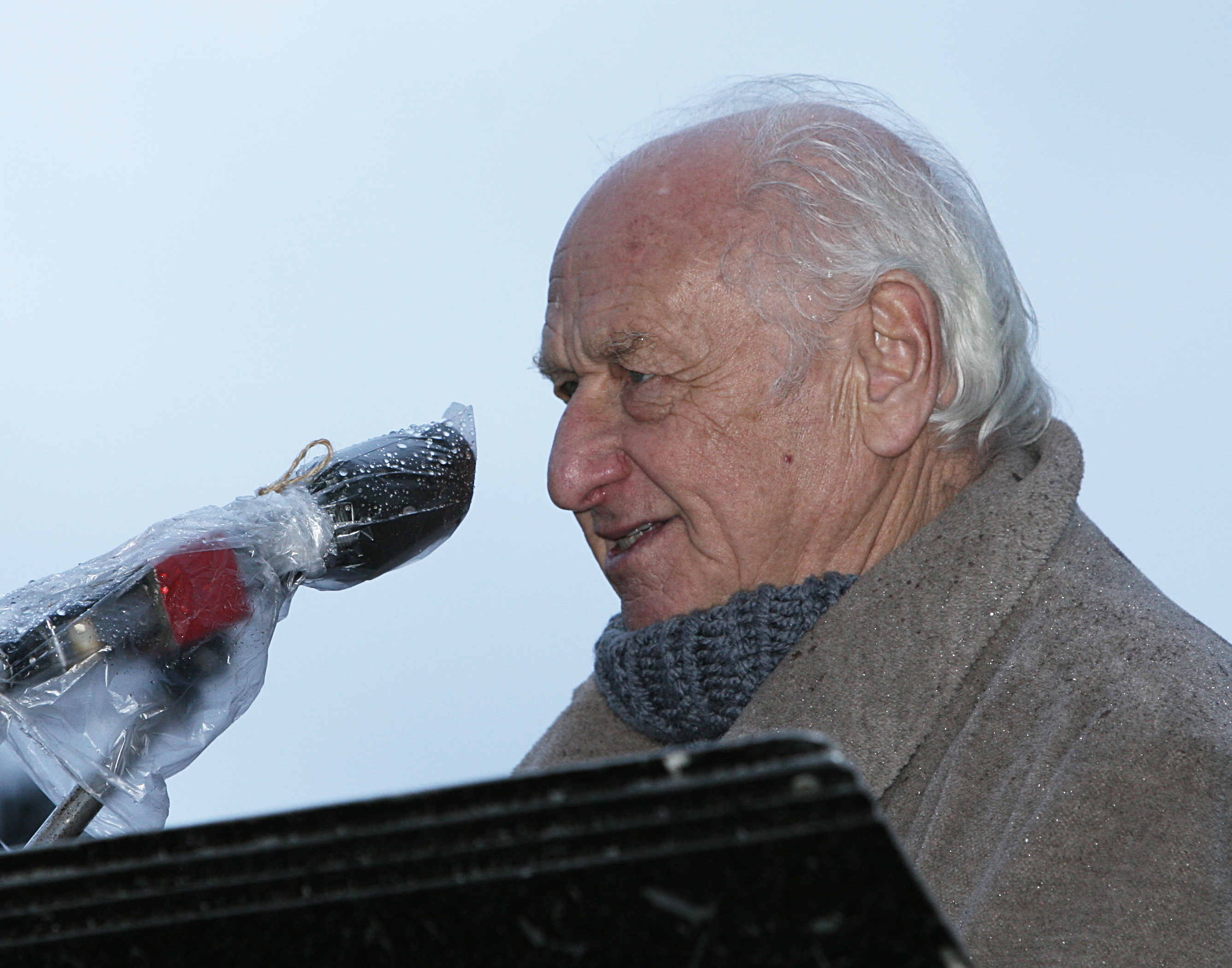 Arnošt Lustig on a anti-nazi demostration, Prague's Old Town Square